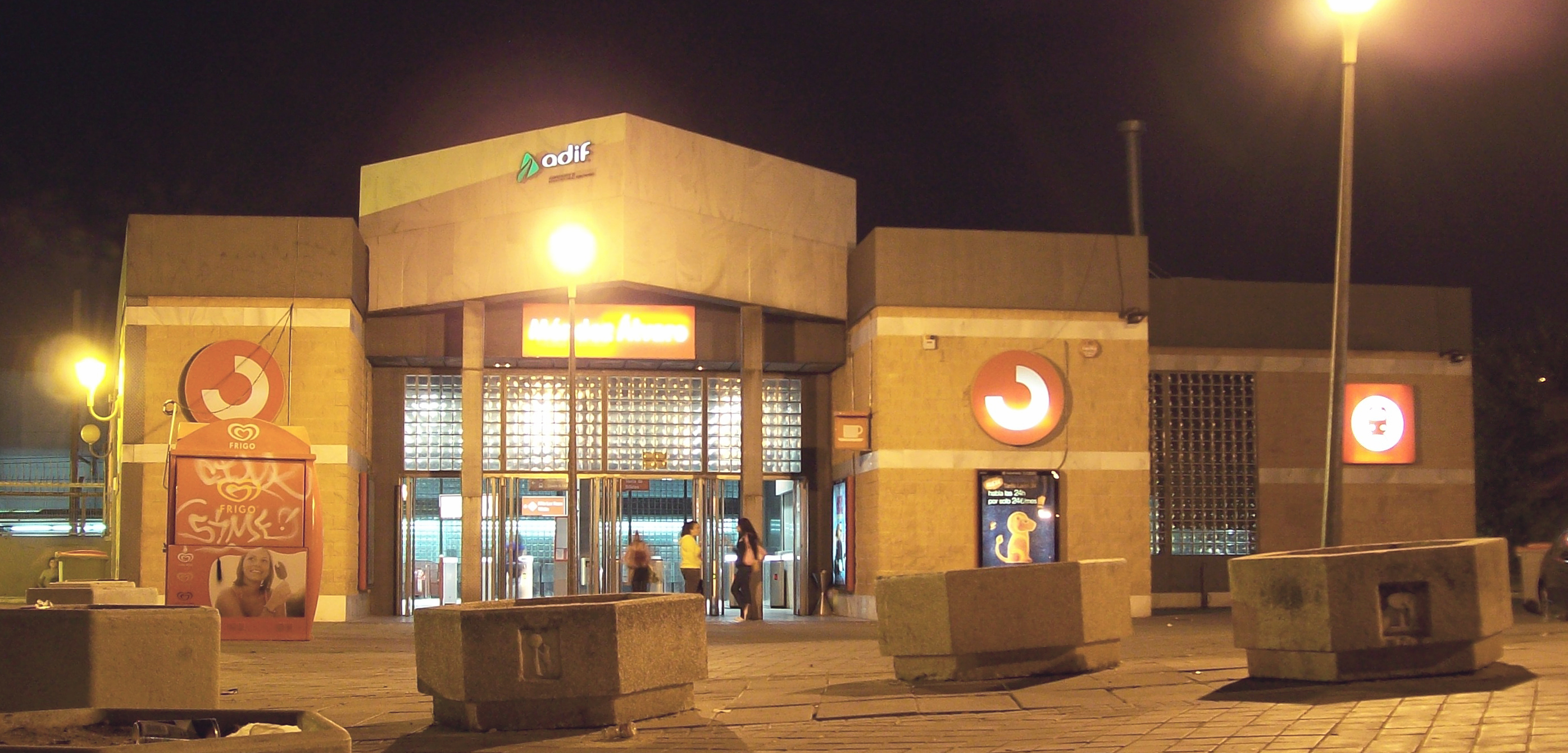 Entrance to Méndez Álvaro Station in Madrid (Spain).